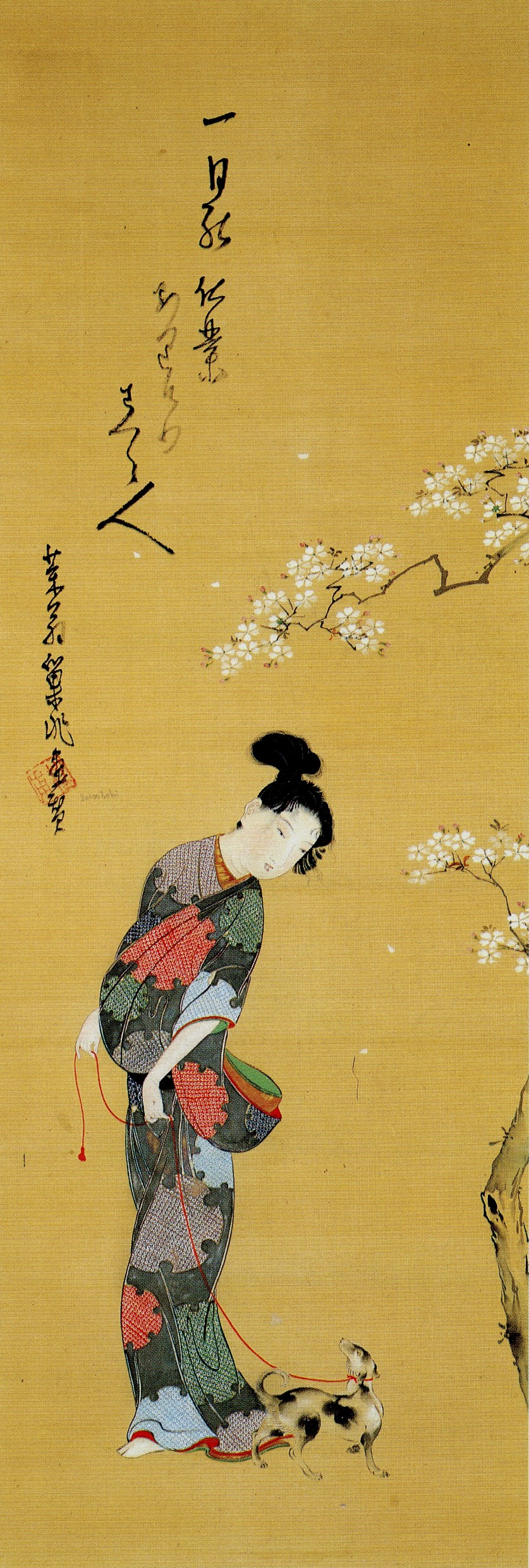 Painting in style of Kan'ei Aera